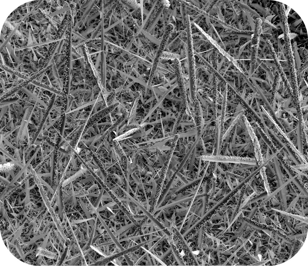 The most interesting world - is one what we can not see. There are a lot of objects in nanoscale range which look as a dust. For instance here are nanosheets, nanorods, nanoparticles of ZnO grown at extraordinary conditions, agglomerated together and we can see the fantastic forest of unconventional trees and plants.